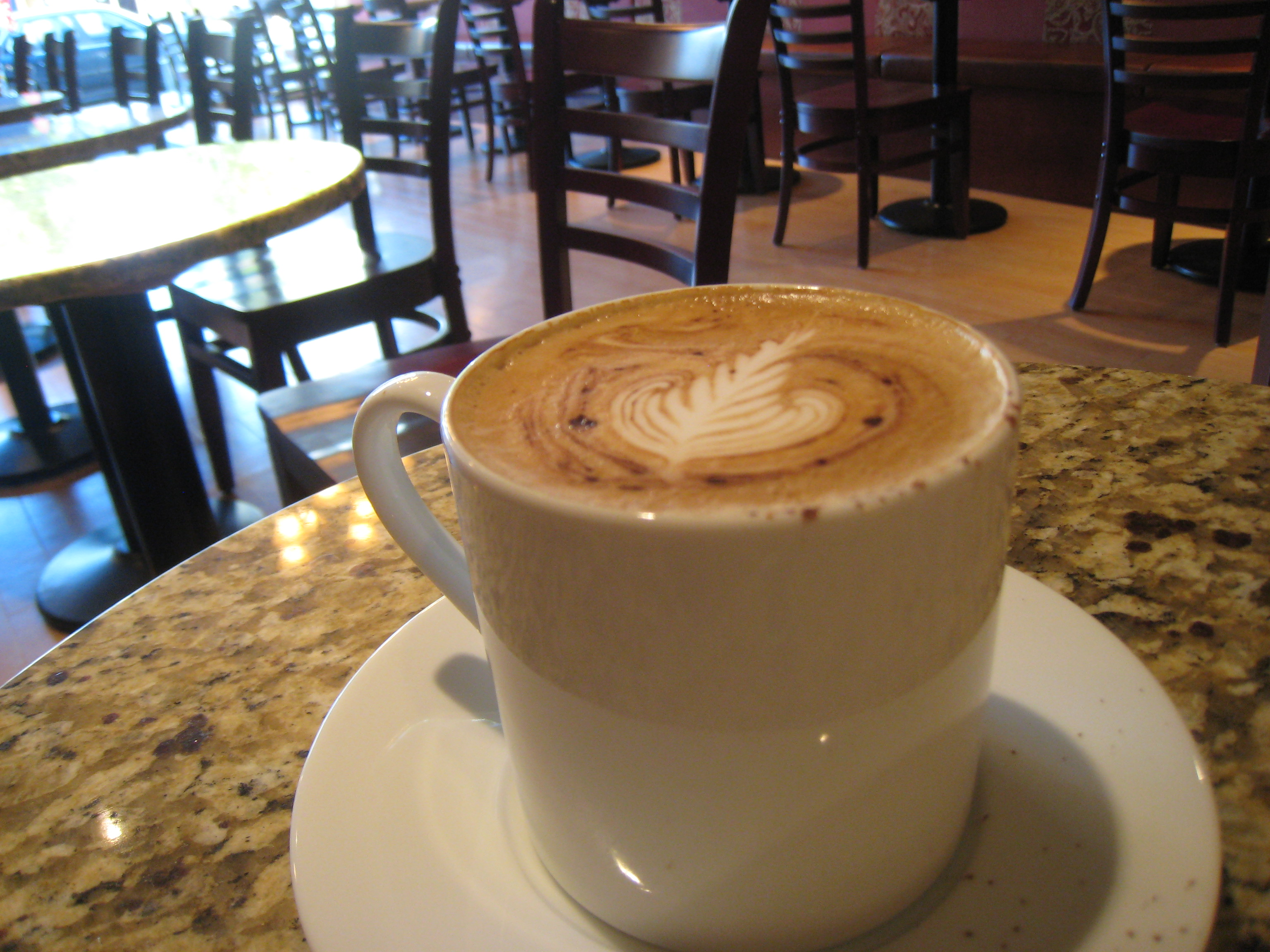 From the INeedCoffee article Vancouver Espresso Vacation.